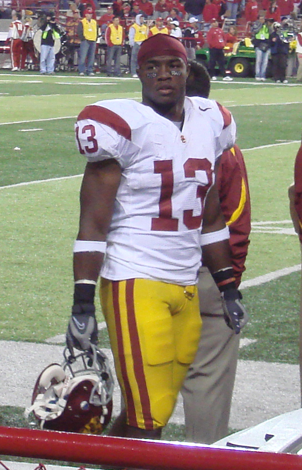 Running back Stafon Johnson during the final minutes of a USC victory over Nebraska.